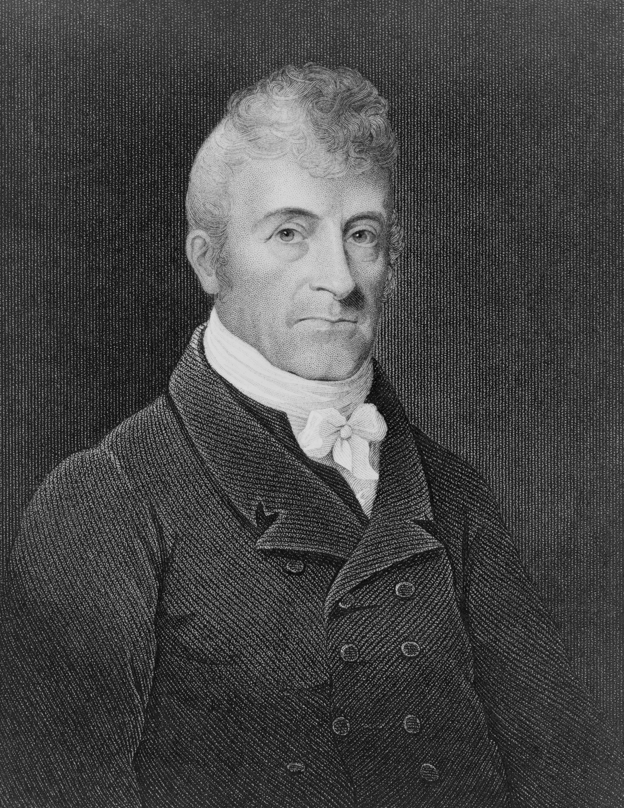 Engraving of Stephen Van Rensselaer III (November 1, 1764 — January 26, 1839), founder of Rensselaer Polytechnic Institute, former Lieutenant Governor of New York, and member of the United States House of Representatives. He is documented as having been the tenth richest American in history with a net worth of $10 million (about $88 billion in 2007 dollars) at the time of his death.